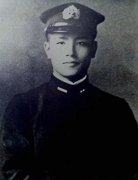 Yoshiyasu Kuno or Kofu Kuno (1921-1944)